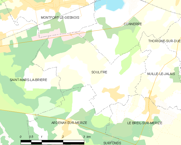 Map of French municipality